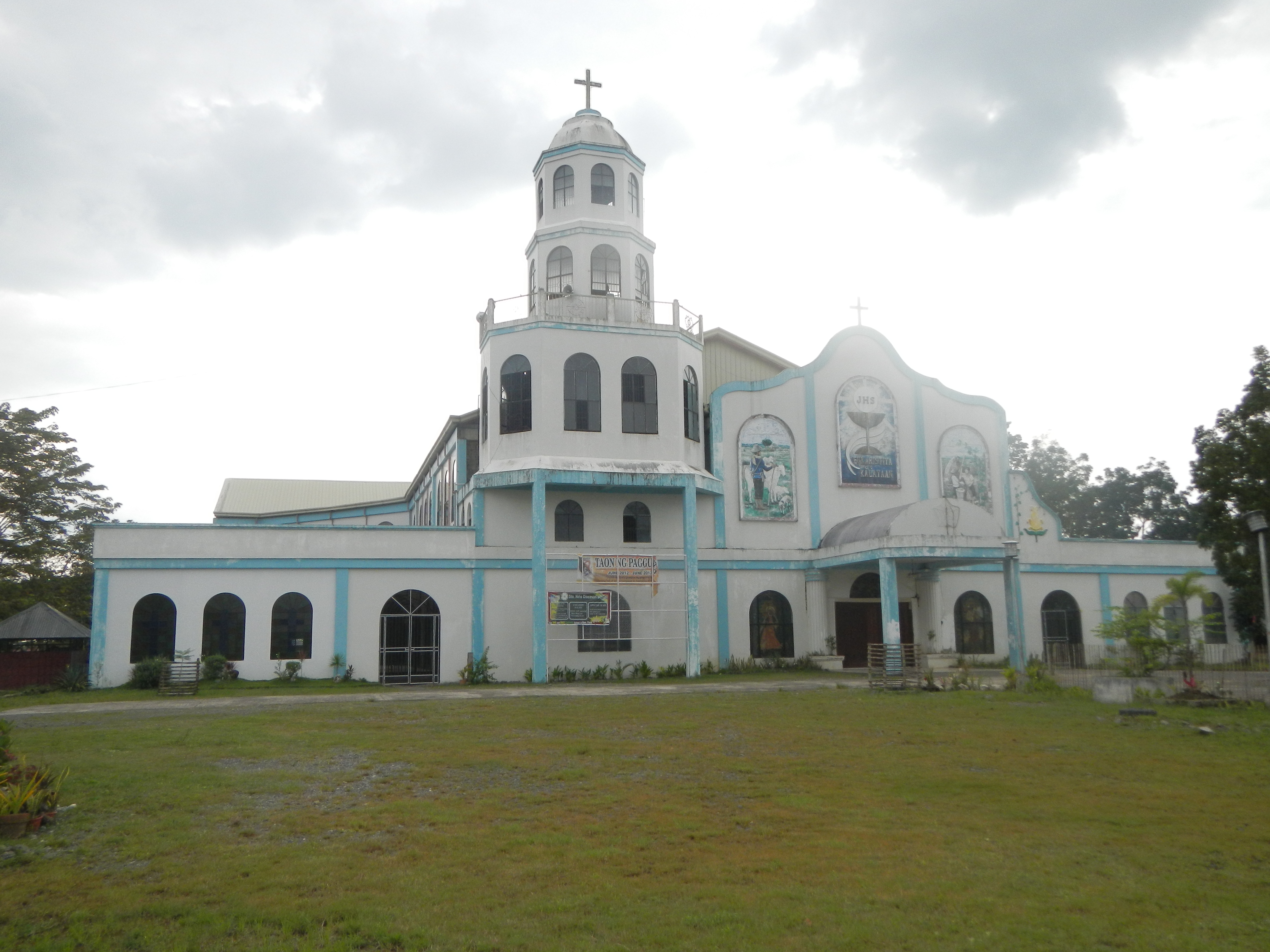 General Tinio, Nueva Ecija[1][2]New Holy Cross Parish Church